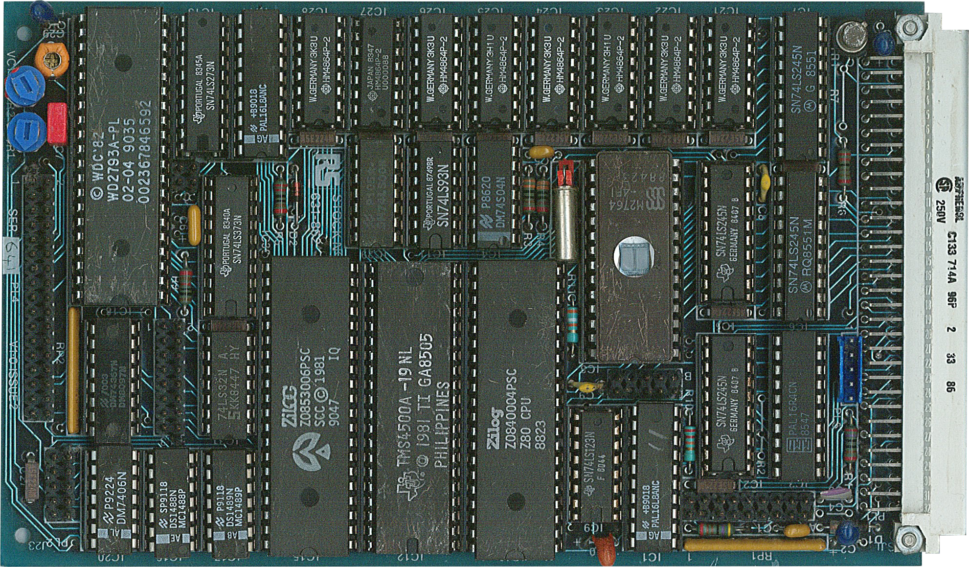 STEbus Z80 CPU and FDC on 100x160mm Eurocard, capable of running CP/M. Designed by Arcom Control Systems in 1984. Silk screen modified and re-sold by RS Components, stock no. 631-862.